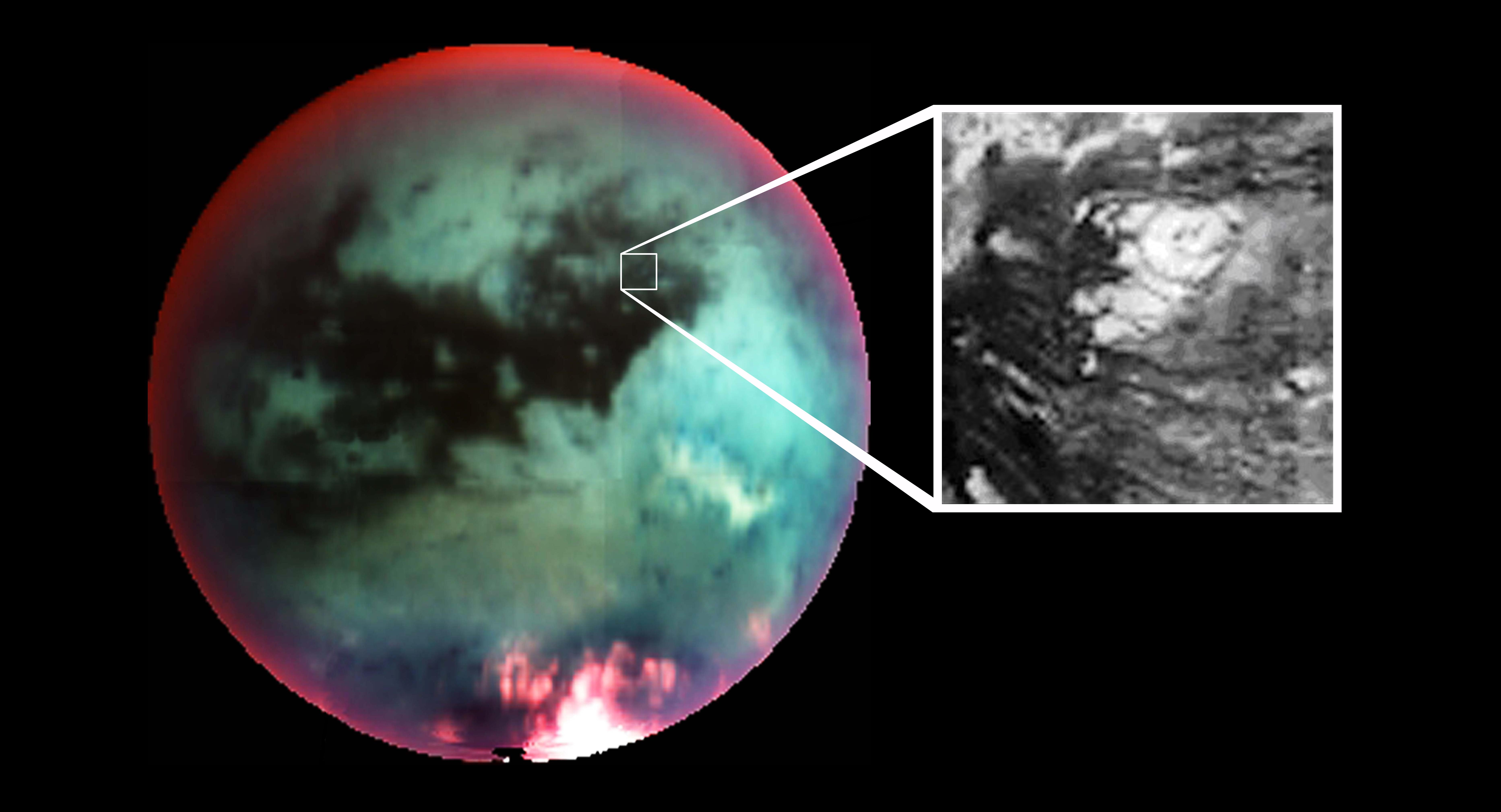 Tortola Facula (formerly interpreted as cryovolcano) on Saturn moon Titan in false color, taken by the Cassini space probe with ultraviolet and infrared camera.